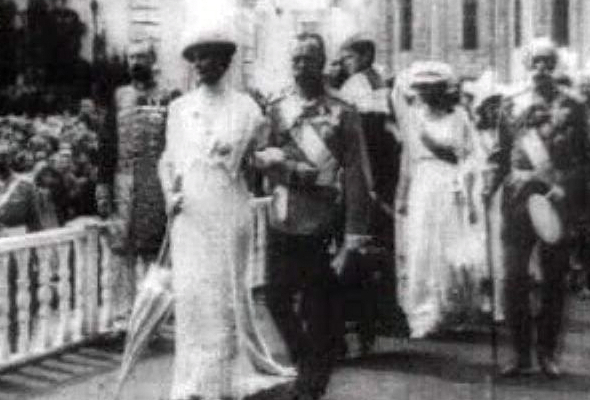 Celebration of the tercentenary of the Romanov House